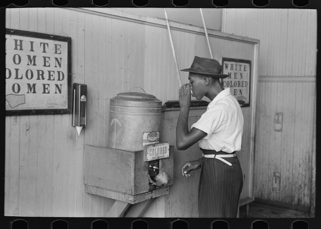 Negro drinking at "Colored" water cooler in streetcar terminal, Oklahoma City, Oklahoma (original caption) 1 negative : nitrate ; 35 mm. Notes: Additional information on caption card: For M5 use copy negative in series LC-USF331. Title and other information from caption card. Transfer; United States. Office of War Information. Overseas Picture Division. Washington Division; 1944. Subjects: Segregation. Oklahoma City--Oklahoma United States--Oklahoma--Oklahoma City. Format: Nitrate negatives. Rights Info: No known restrictions. For information, see U.S. Farm Security Administration/Office of War Information Black & White Photographs Repository: Library of Congress, Prints and Photographs Division, Washington, DC 20540 USA, Part Of: Farm Security Administration - Office of War Information Photograph Collection (Library of Congress) More information about the FSA/OWI Collection is available at Higher resolution image is available (Persistent URL): Call Number: LC-USF33- 012327-M5